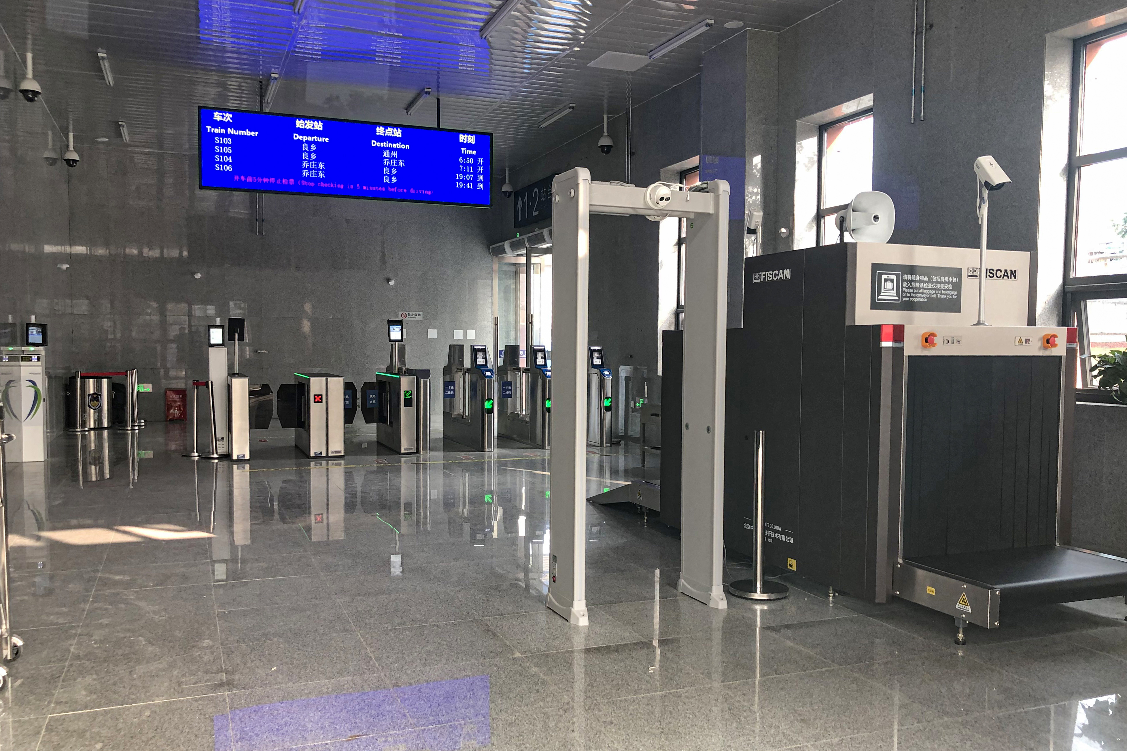 An act of minimalism.